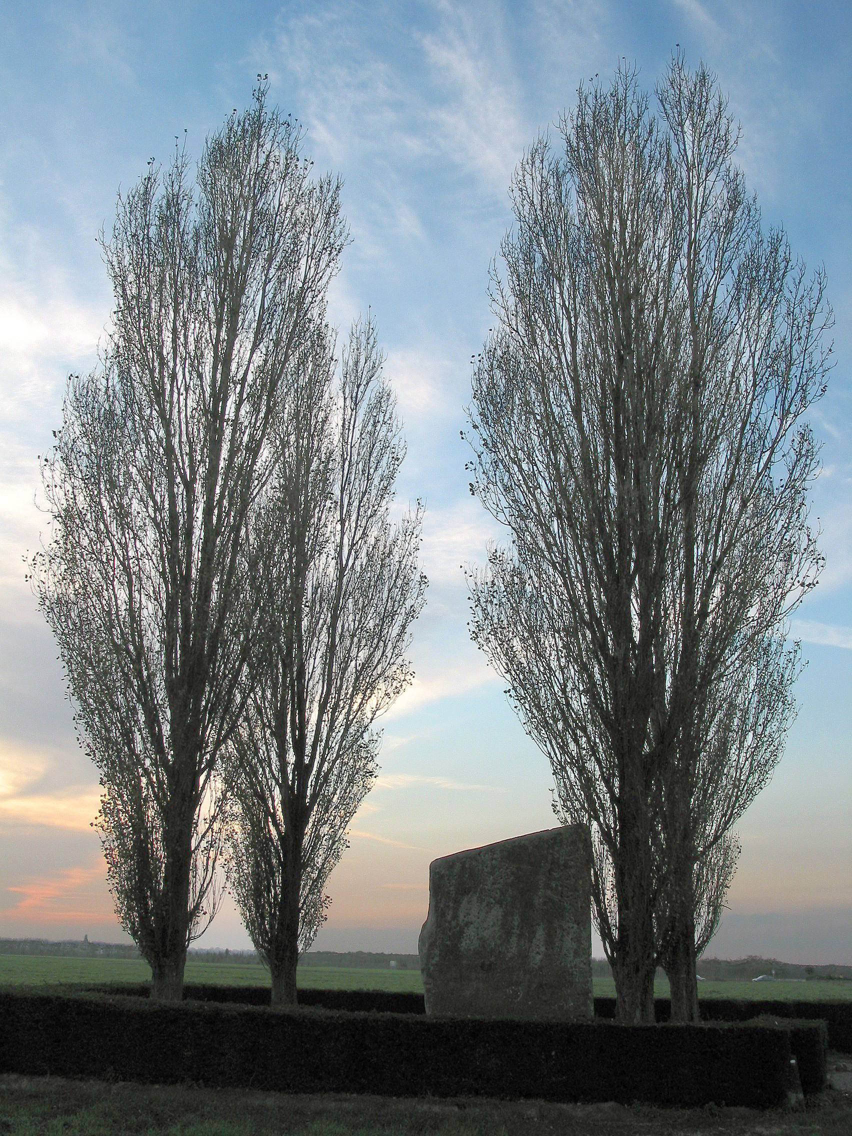 Brunehaut Hainaut (Belgium), the Pierre Brunehaut (megalith).